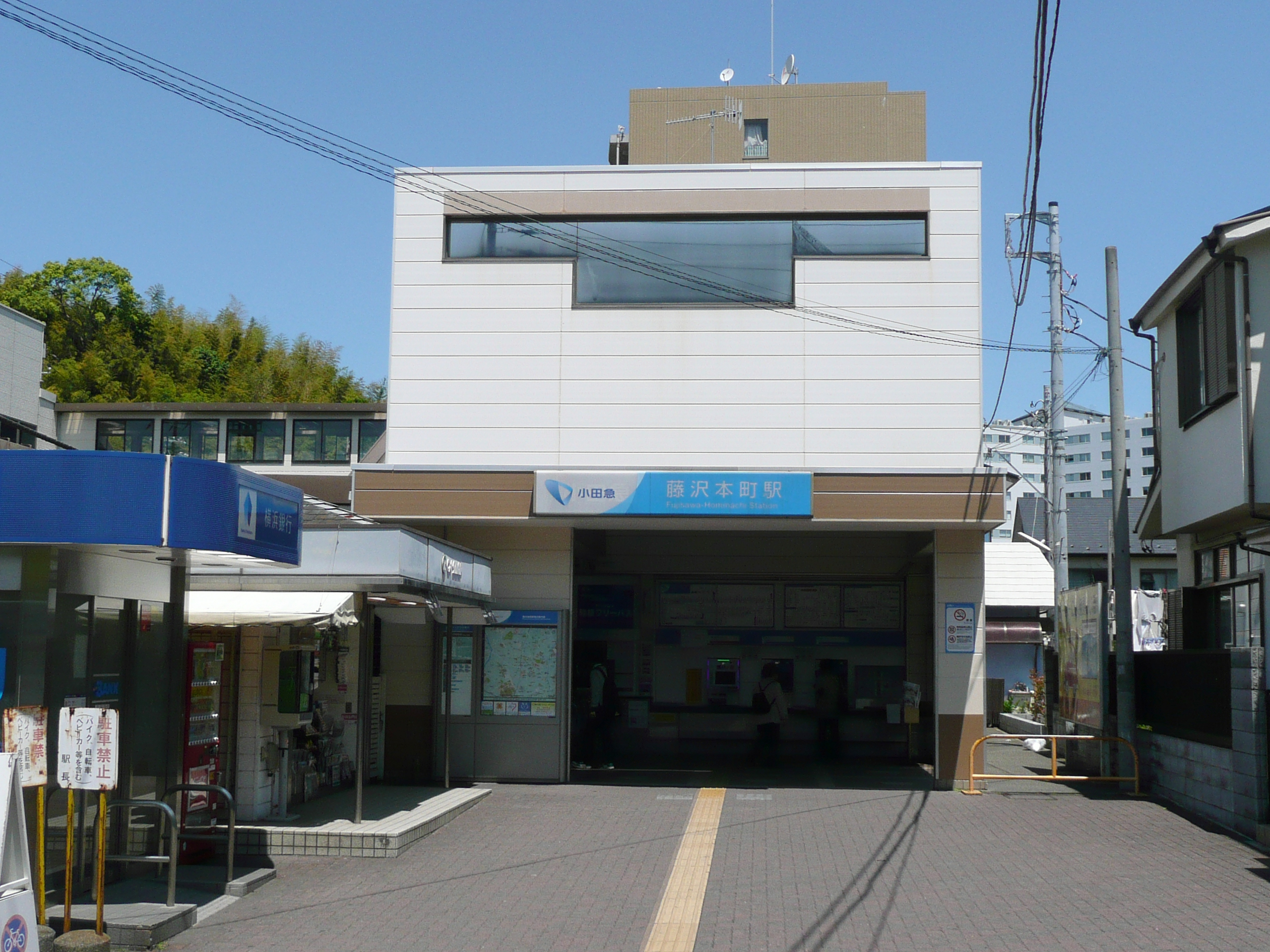 Fujisawa-Hommachi Station